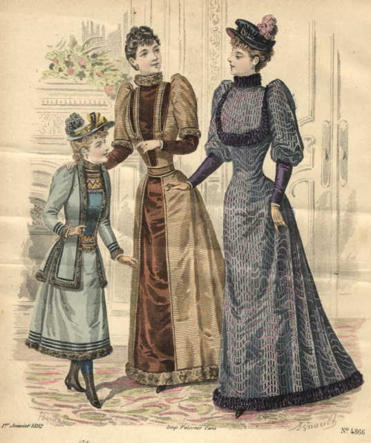 Fashion plate from Journal Des Demoiselles, 1892